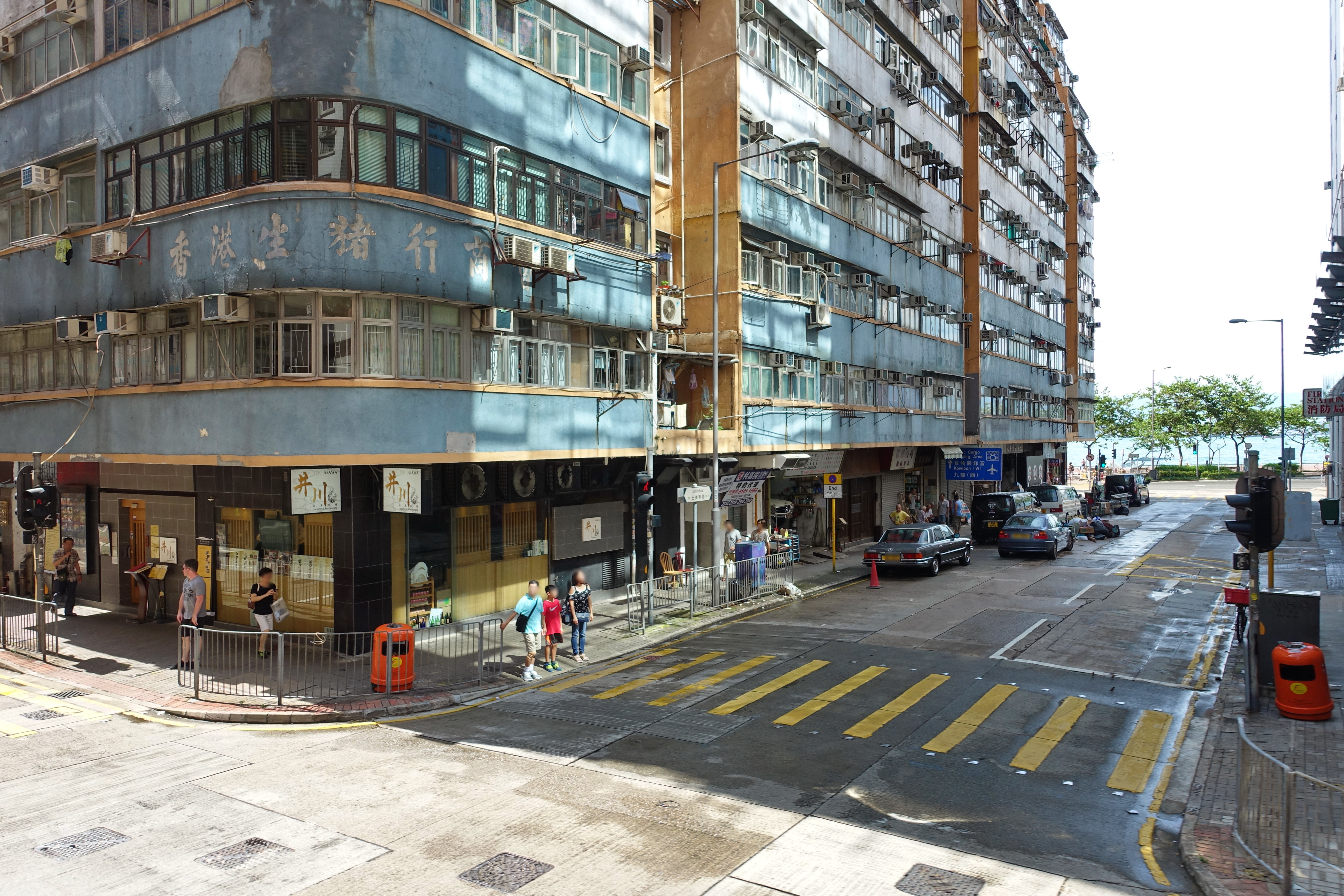 Smithfield and Catchick Street, Hong Kong.